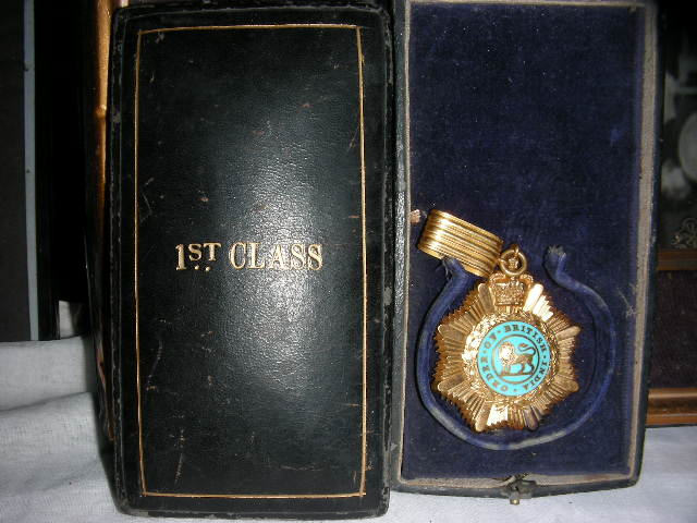 Sardar Bahdaur Title of Honorary Captain Sardar Bahadur Ranjit Singh